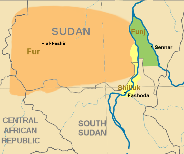 Kingdoms of the Sudan and southern Sudan (South Sudan) — circa 1800. Kingdoms include the: Fur Funj — (White and Blue Nile) Shilluk — (White Nile) Tegali